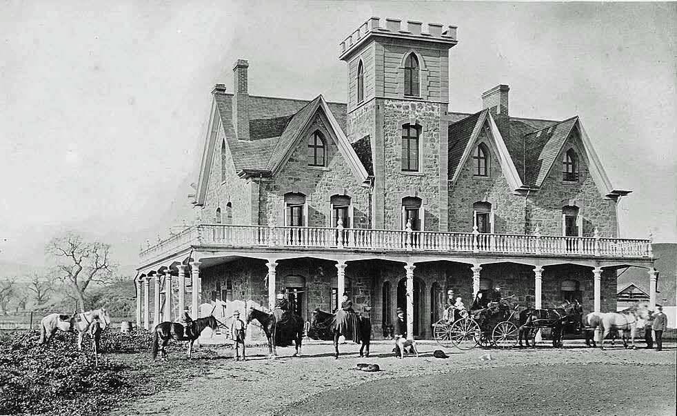 National Register of Historic Places listings in Contra Costa County, California. John Marsh House (c. 1870), Marsh Creek Road, Brentwood vicinity, Contra Costa County, CA. Call Number: HABS CAL,7-BRENT.V,1-2. Created/Published: Documentation compiled after 1933. Building/structure dates: 1856 initial construction. DIGID: [1]